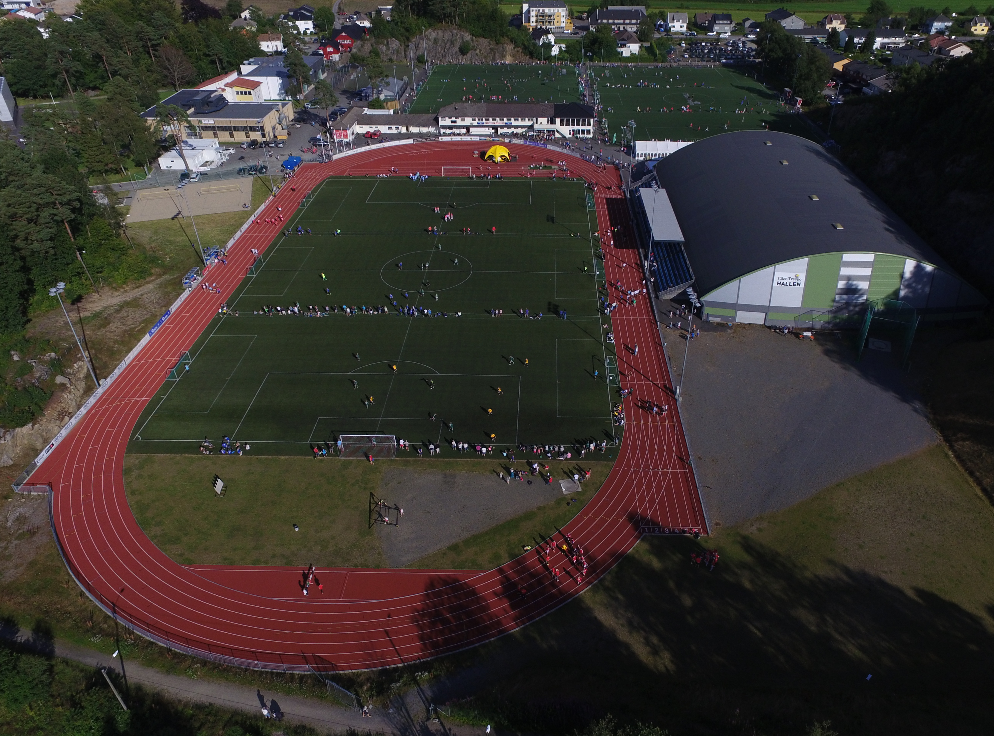 Lyngdal Stadion in Lyngdal, Norway.